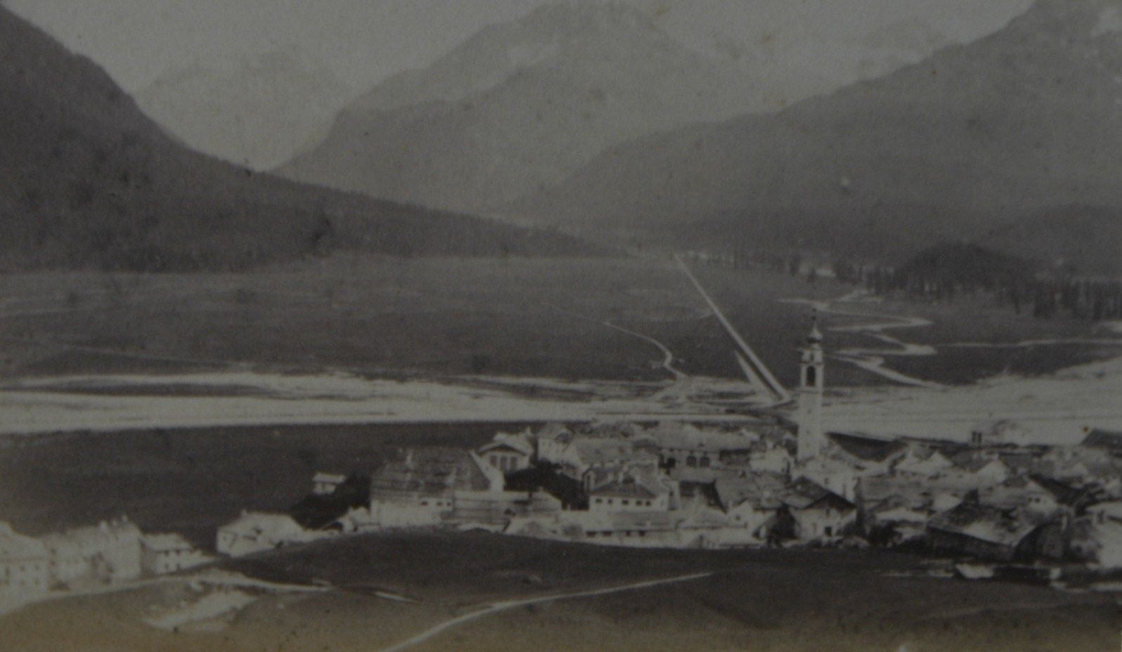 My photo (Rodolph de Salis-Soglio (talk) 00:40, 11 August 2013 (UTC)) of a circa 1870s photo of Samedan.